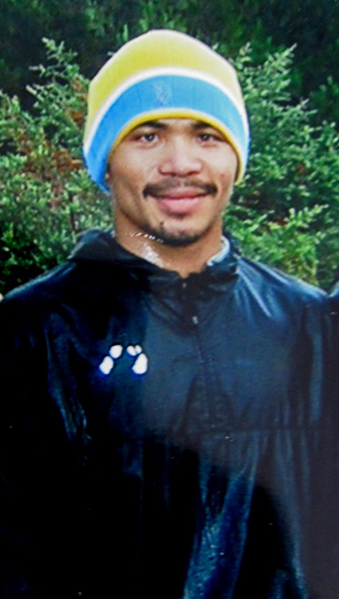 Manny Pacquiao, LA right before the Marco Antonio Barrera fight. (original text)